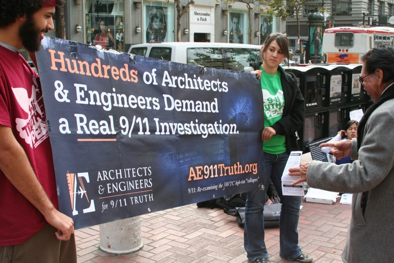 Two people holding a banner of the organization Architects & Engineers for 9/11 Truth. The text of the banner reads: "Hundreds of Architects & Engineers Demand a Real 9/11 Investigation."